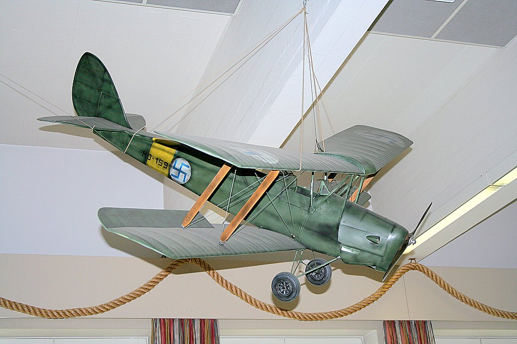 de Havilland D.H.82 Tiger Moth (model) During the WWII one Tiger Moth of the Norwegian airforce landed to Petsamo in Finland at the Ylaluostari airport and it was internated. Afterwards it was painted in the colours of the Finnish airforce and it was used as a liaison aircraft to the end of 1944. In the airforce service it was registered as MO-159. Nowadays the MO-159 is in private ownership and its register is OH-XLA. A picture is about a model of the MO-159 in the Finnish war time airforce colours. The blue swastika (1918-1944) was a symbol of luck adopted by a Swedish count von Rosen, who donated in spring 1918 first aircraft of the Finnish airforce.